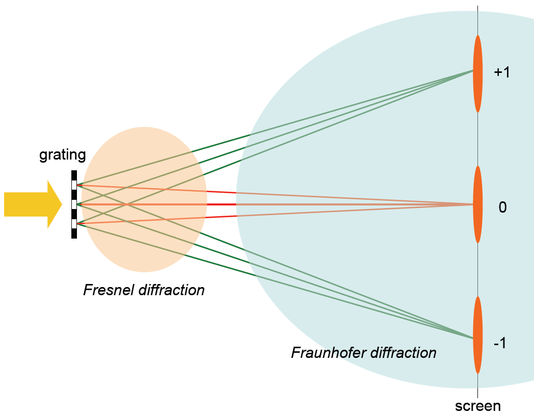 For explanation of diffraction grating.